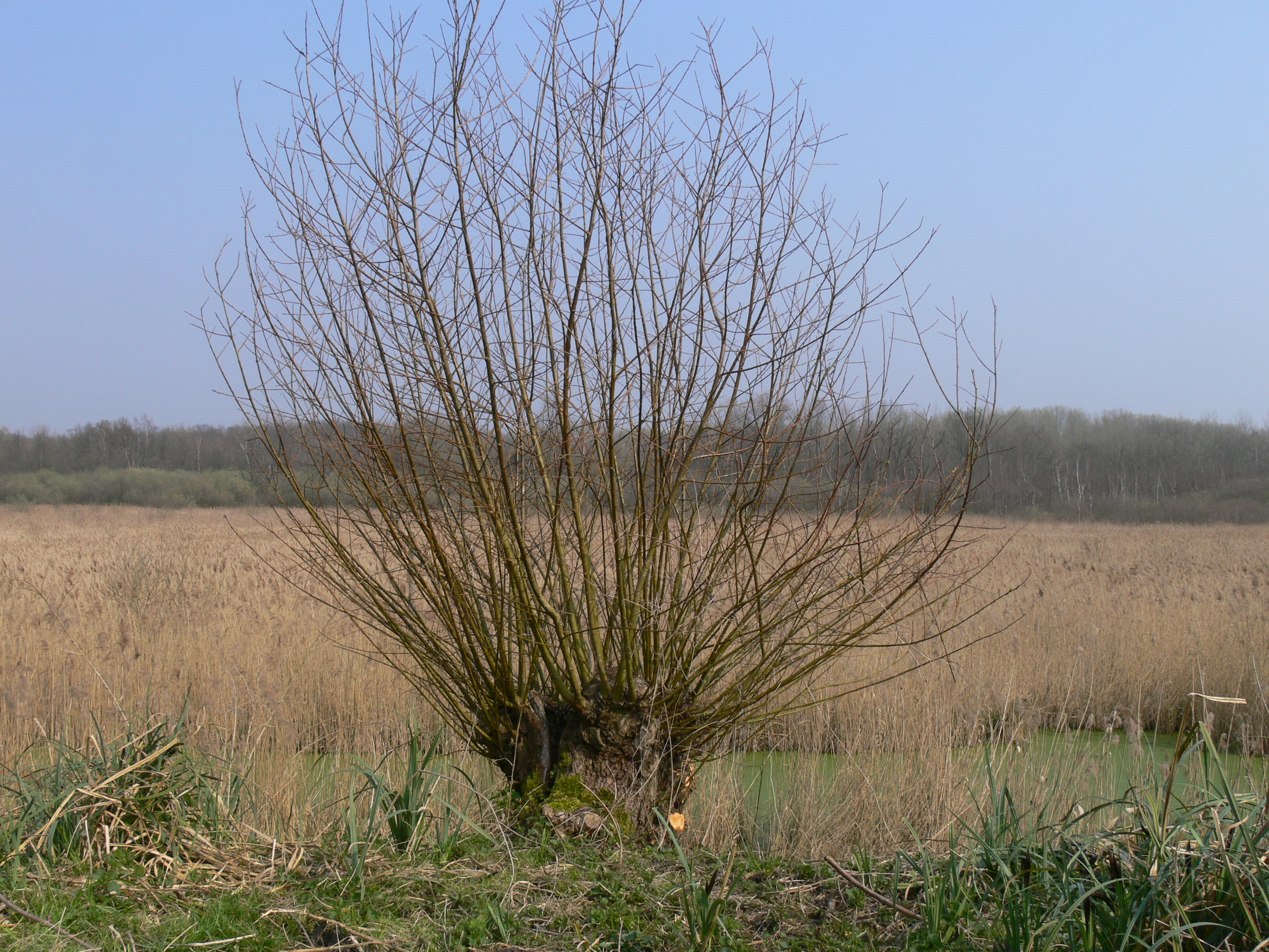 Salix, Bog of Vred, north of france, natural reserve.